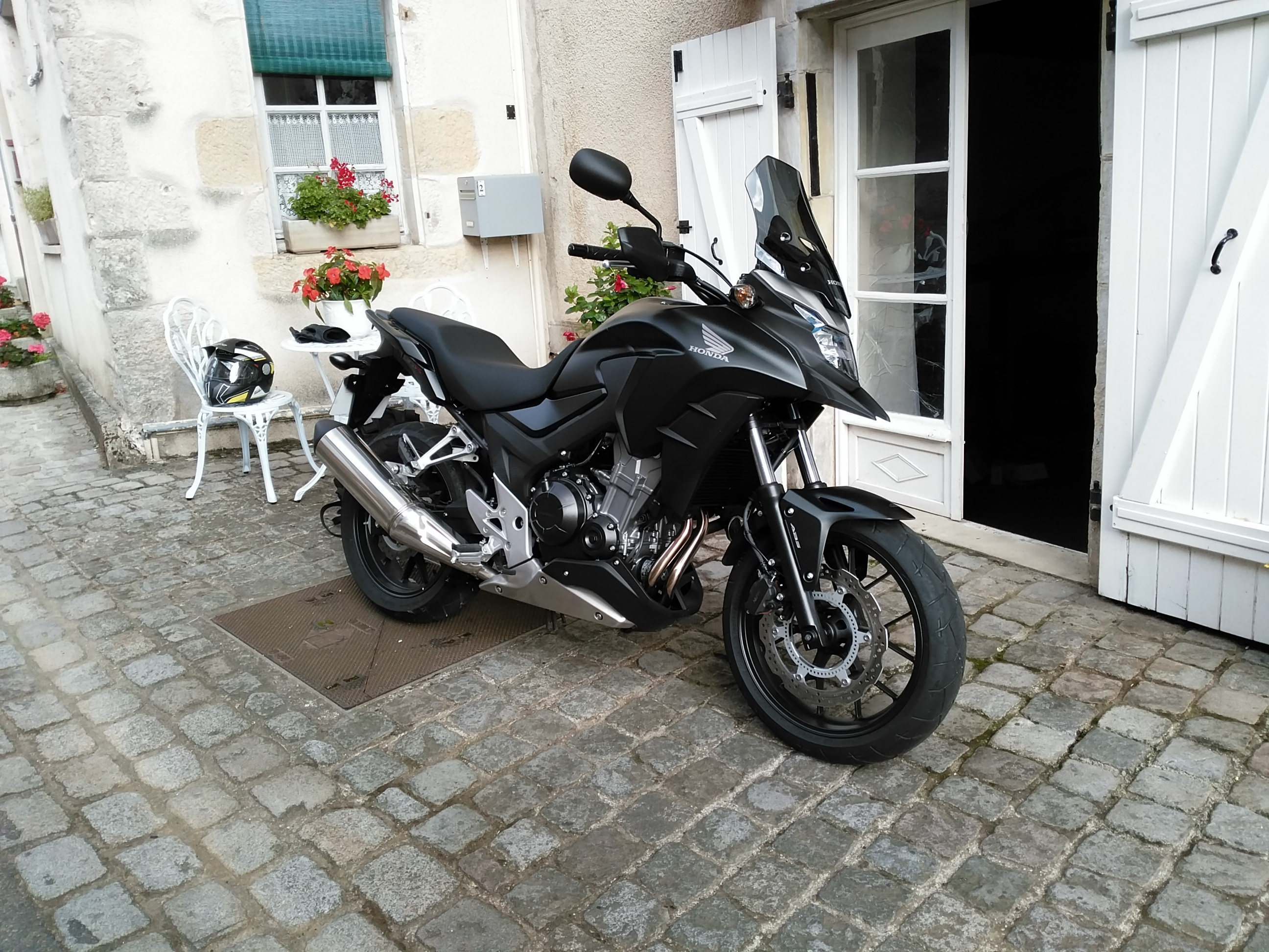 2016 Honda CB500X with extras (right)